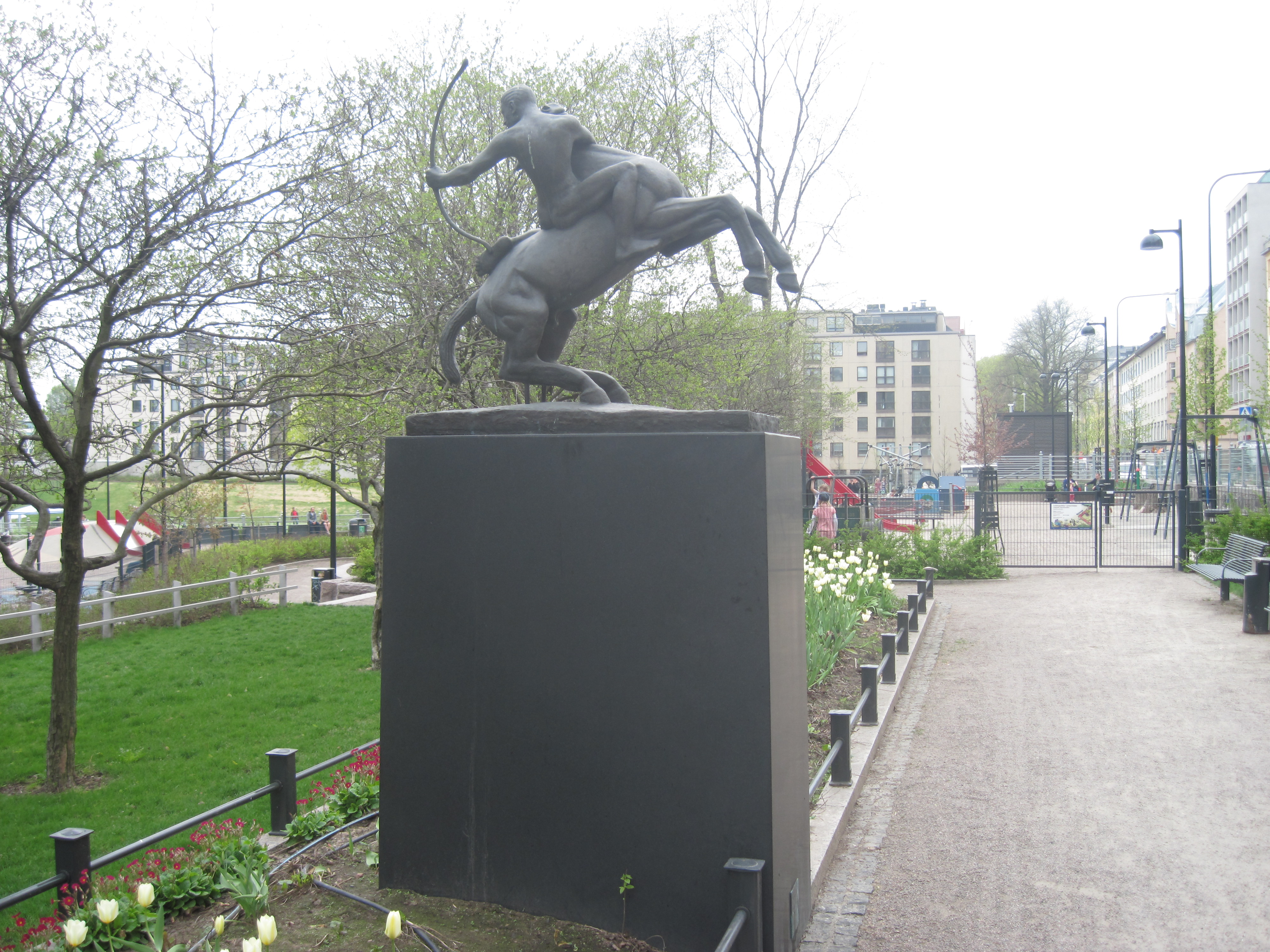 A 2001 replica of Emil Cedercreutz's sculpture Arcum Tendit Apollo (1924) in Lastenlehto Park, Helsinki, Finland.